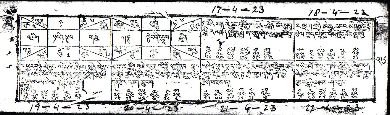 Page 26 of Tibetan Calendar. Blockprint from Lhasa. Beginning of Tibetan month (hor zla) 3.